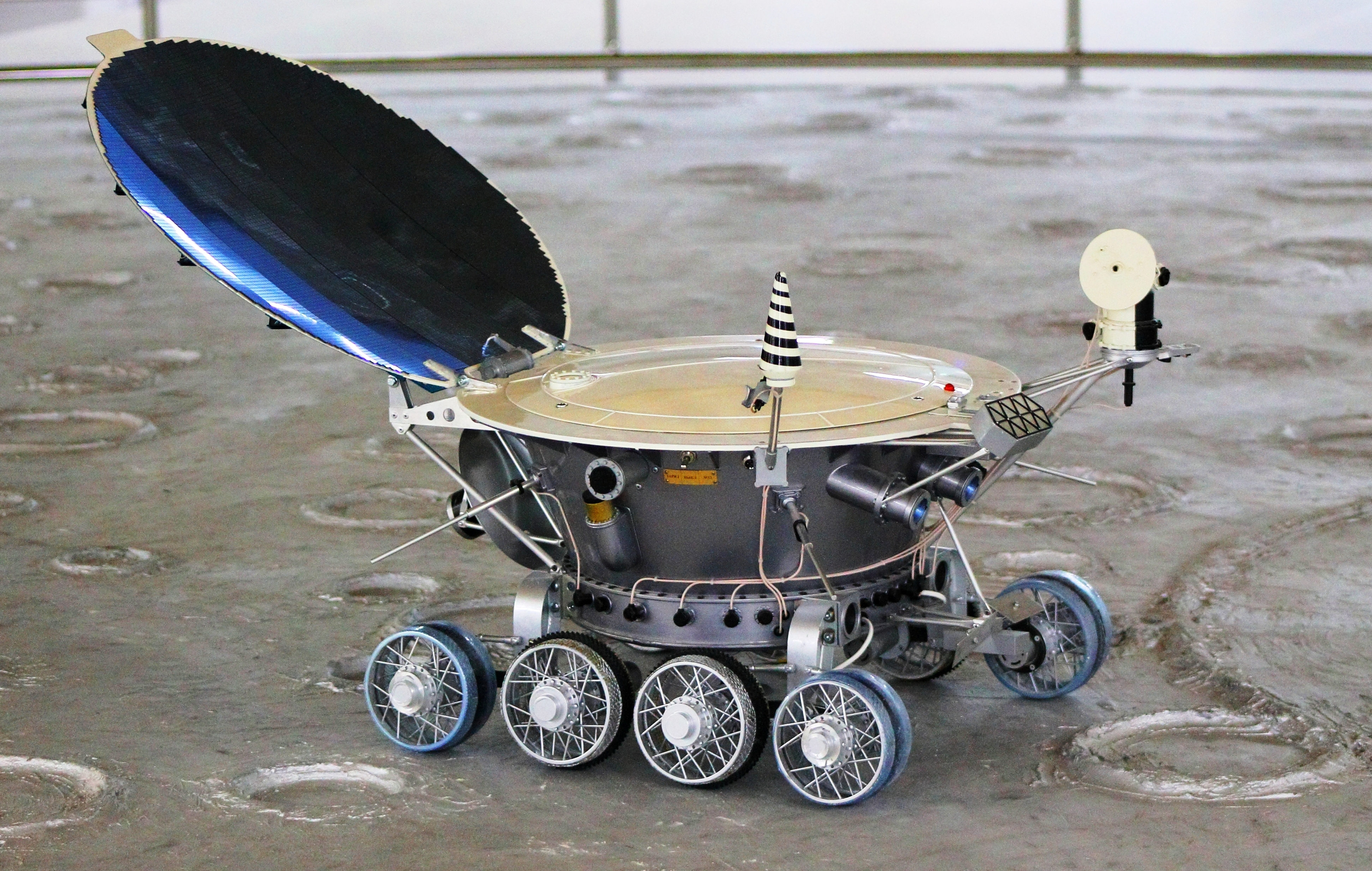 Moon rover model. The public Galaxy center in Krasnaya Polyana, Sochi